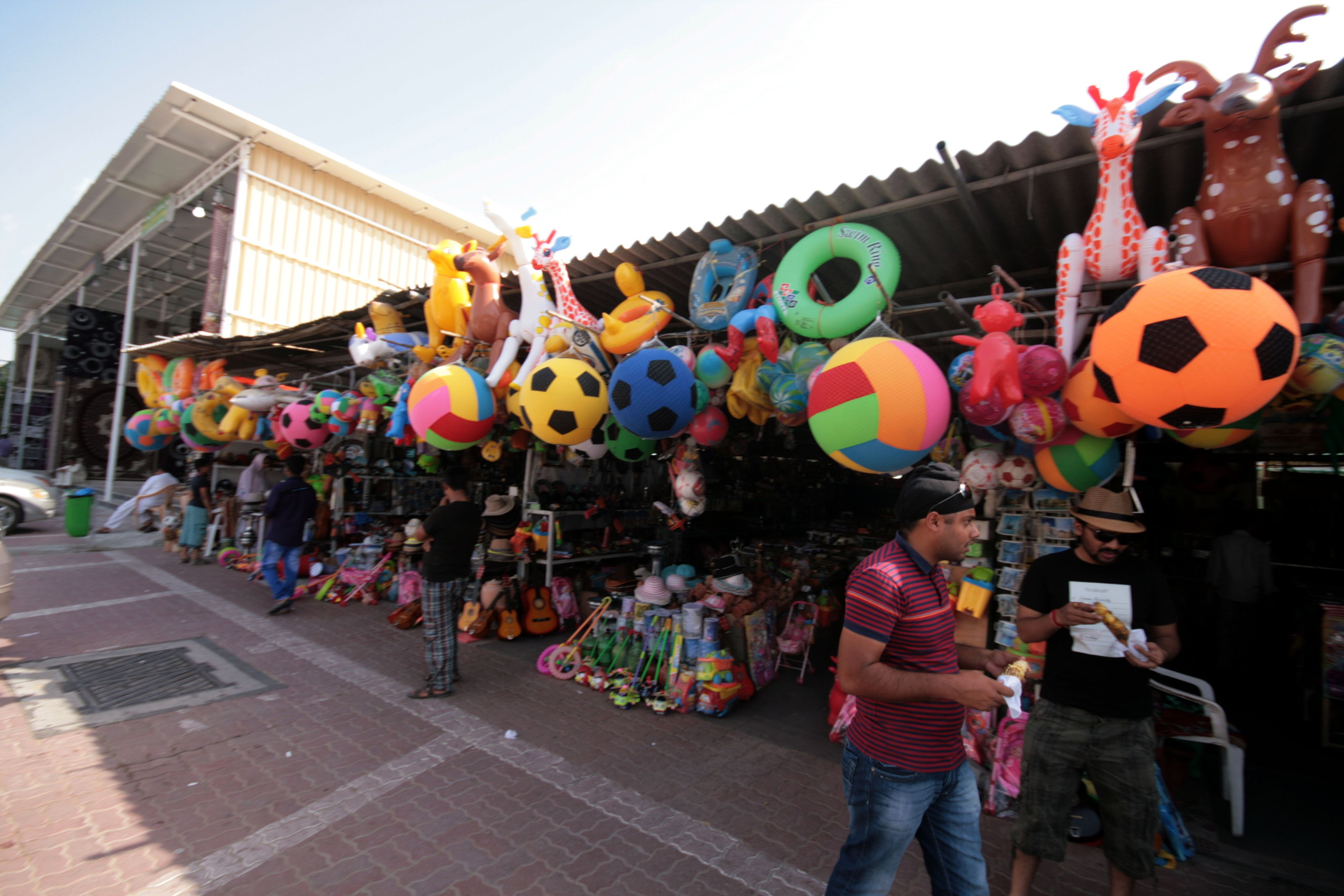 The Friday Market at Masafi, Fujairah, United Arab Emirates